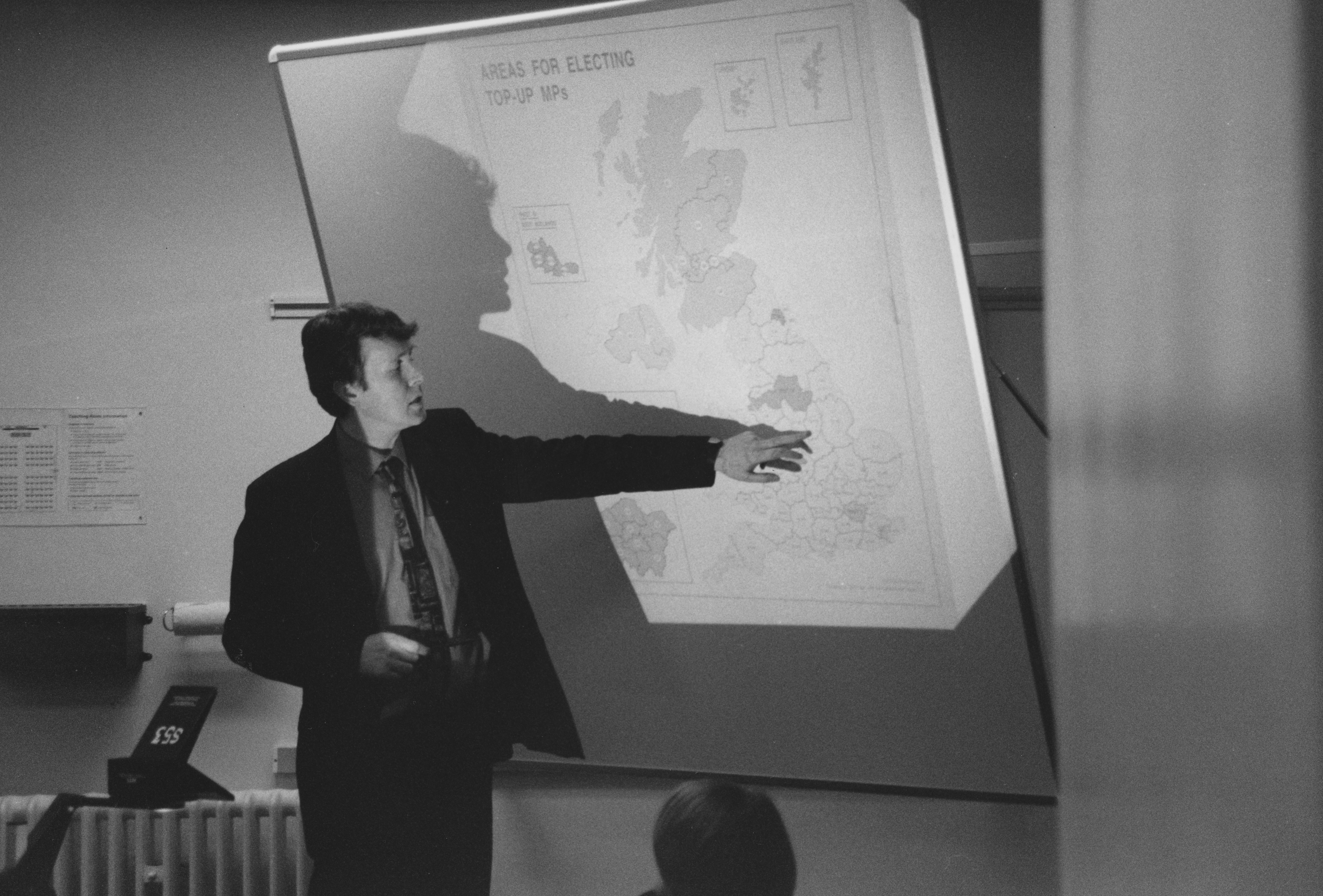 Professor of Political Science and Public Policy, Department of Government IMAGELIBRARY/1122 Persistent URL